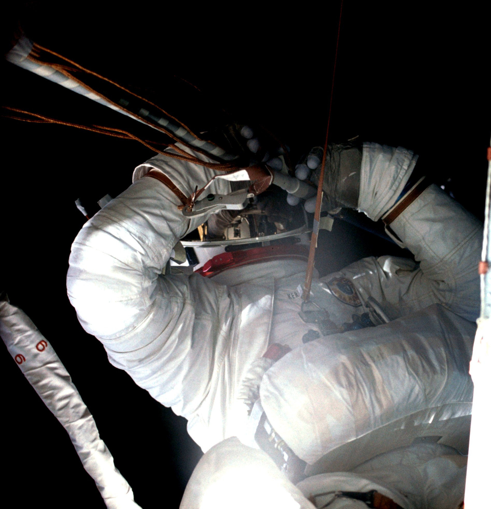 During a spacewalk on June 7, 1973, astronaut Joseph Kerwin uses a cutting instrument to remove metal which had jammed the solar array in a partially opened position. The successful effort by Kerwin and Charles Conrad allowed the solar panels to fully deploy and provide the needed electricity for the three Skylab expeditions.